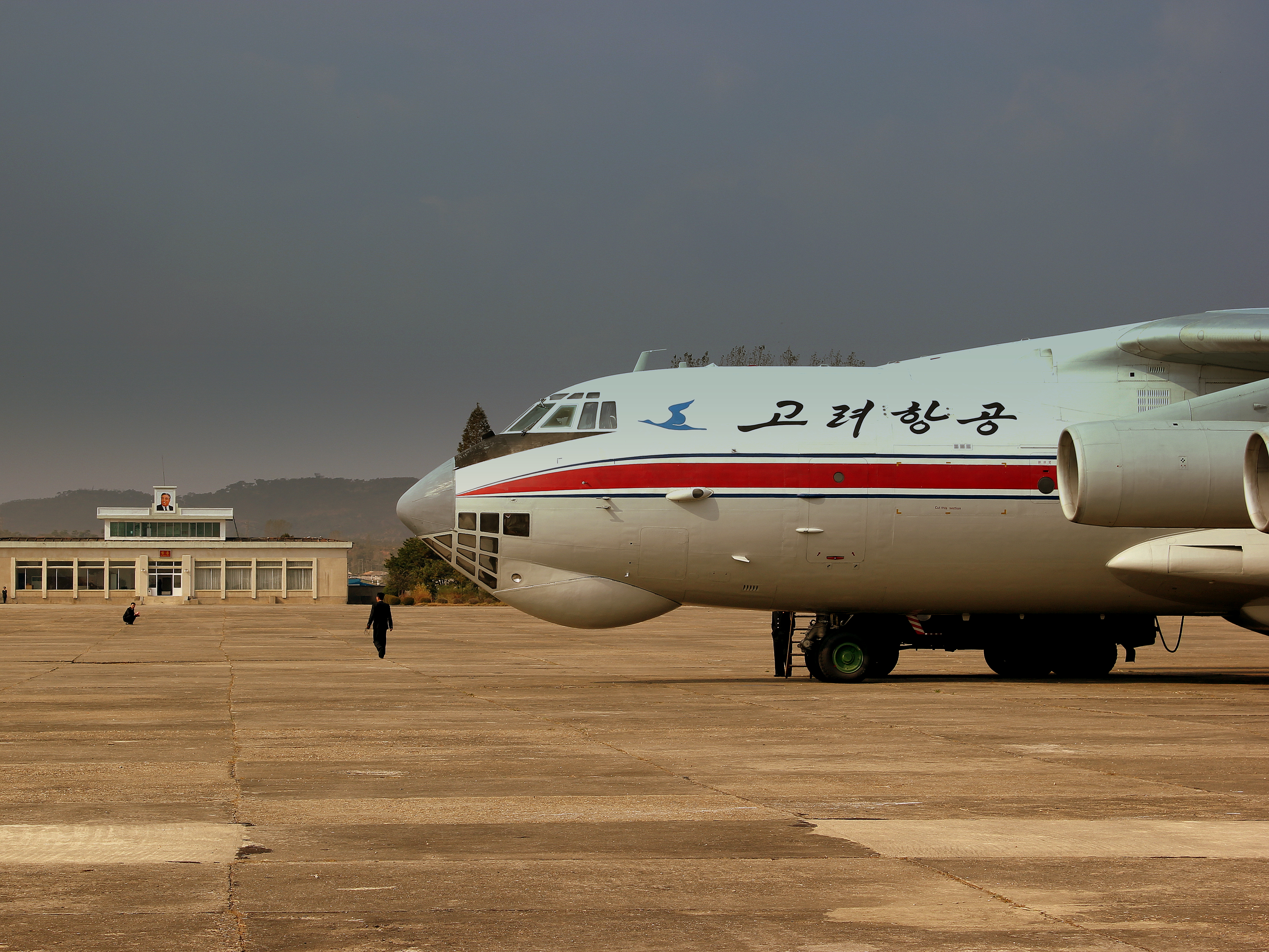 AIR KORYO IL76 P912 AT SONDOK HAMHUNG AIRPORT DPR KOREA OCT 2012